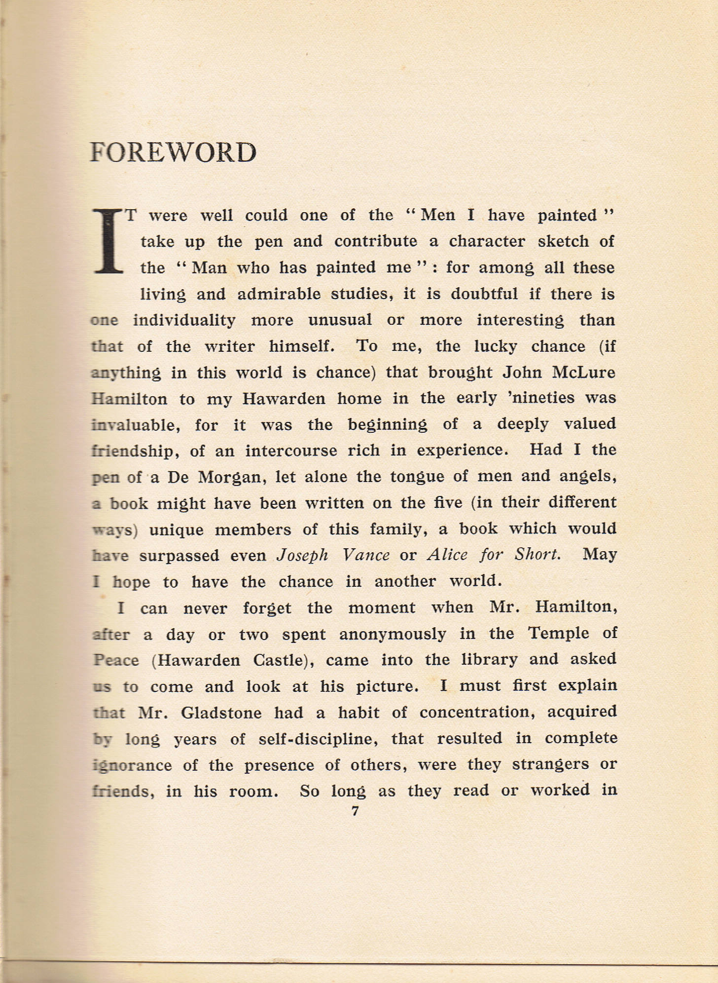 Foreword. Scan of p. 7 from Men I Have Painted by John McLure Hamilton.